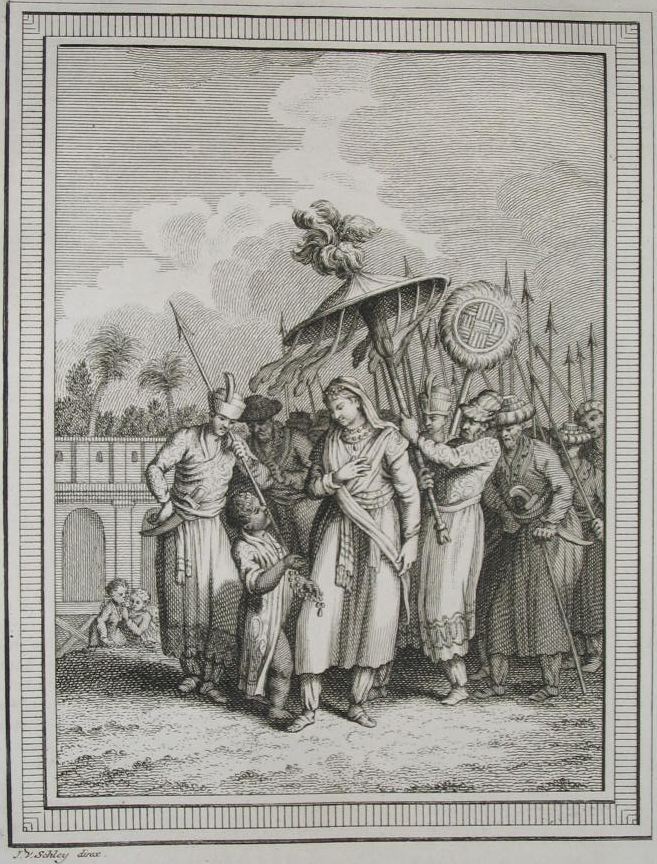 Aurangzeb's other sister, Raushan-ara Begam-- the one who energetically sided with him